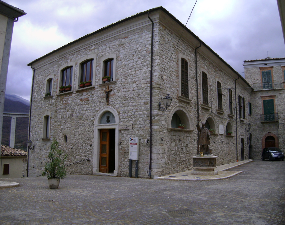 The birthplace and the church of St. Francesco Caracciolo, Villa Santa Maria, province of Chieti, Abruzzo